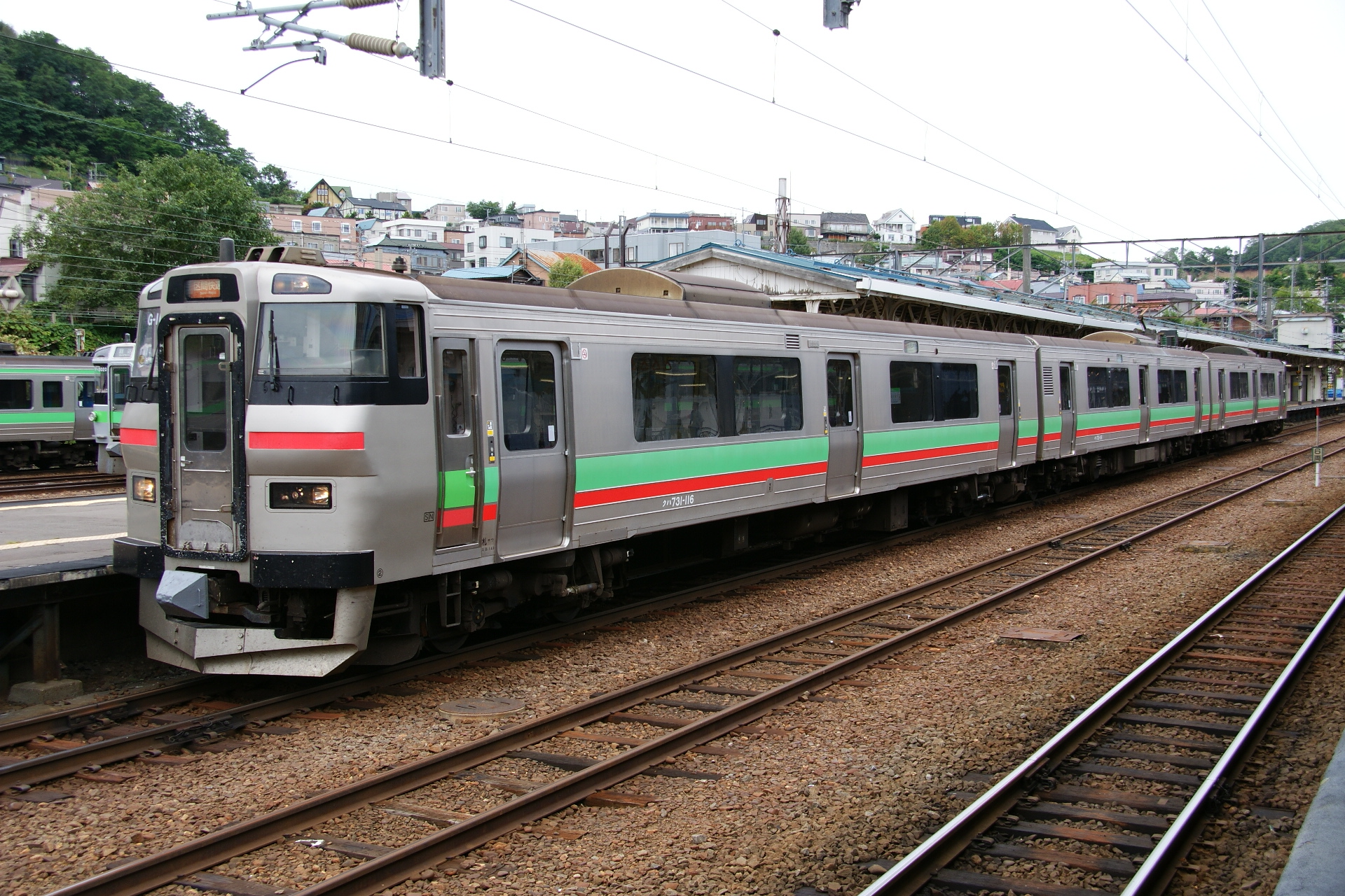 JR Hokkaido 731 series EMU set G116 at Otaru Station on a Semi Express service